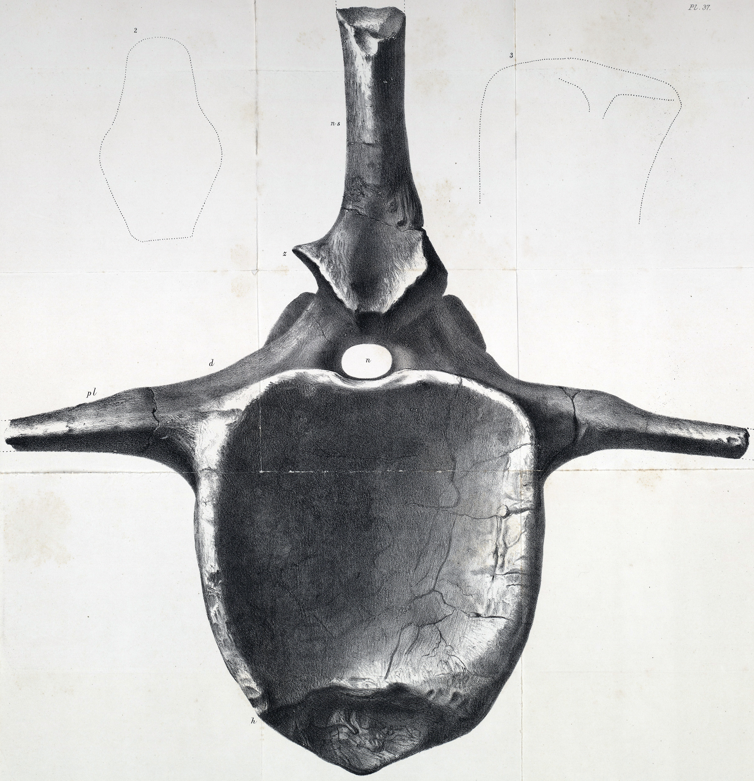 Pelorosaurus Conybearii. Posterior view of a caudal vertebra, natural size. The line below gives the antero-posterior dimension. From the Wealden of Tilgate Forest. British Museum.